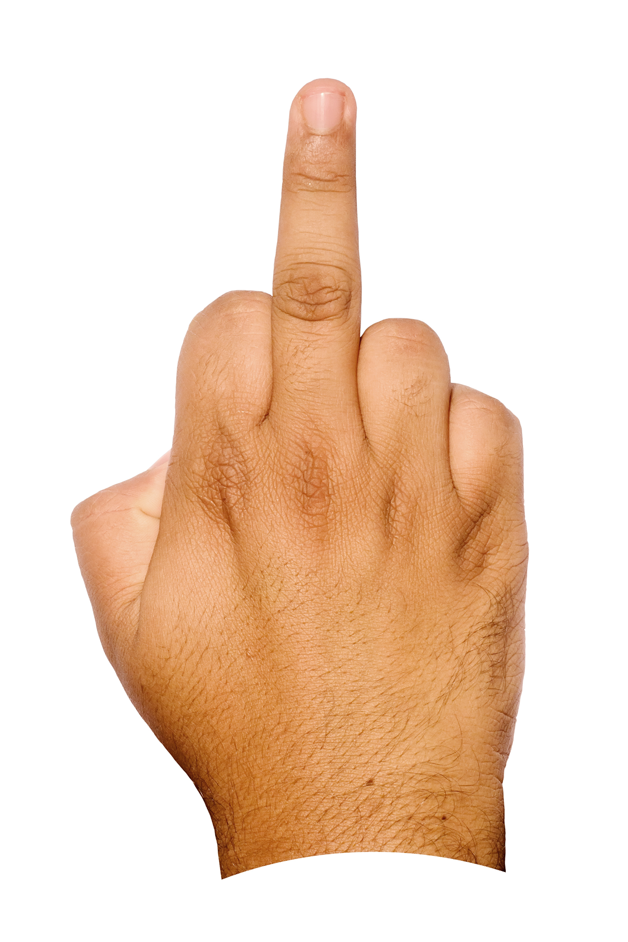 Middle finger